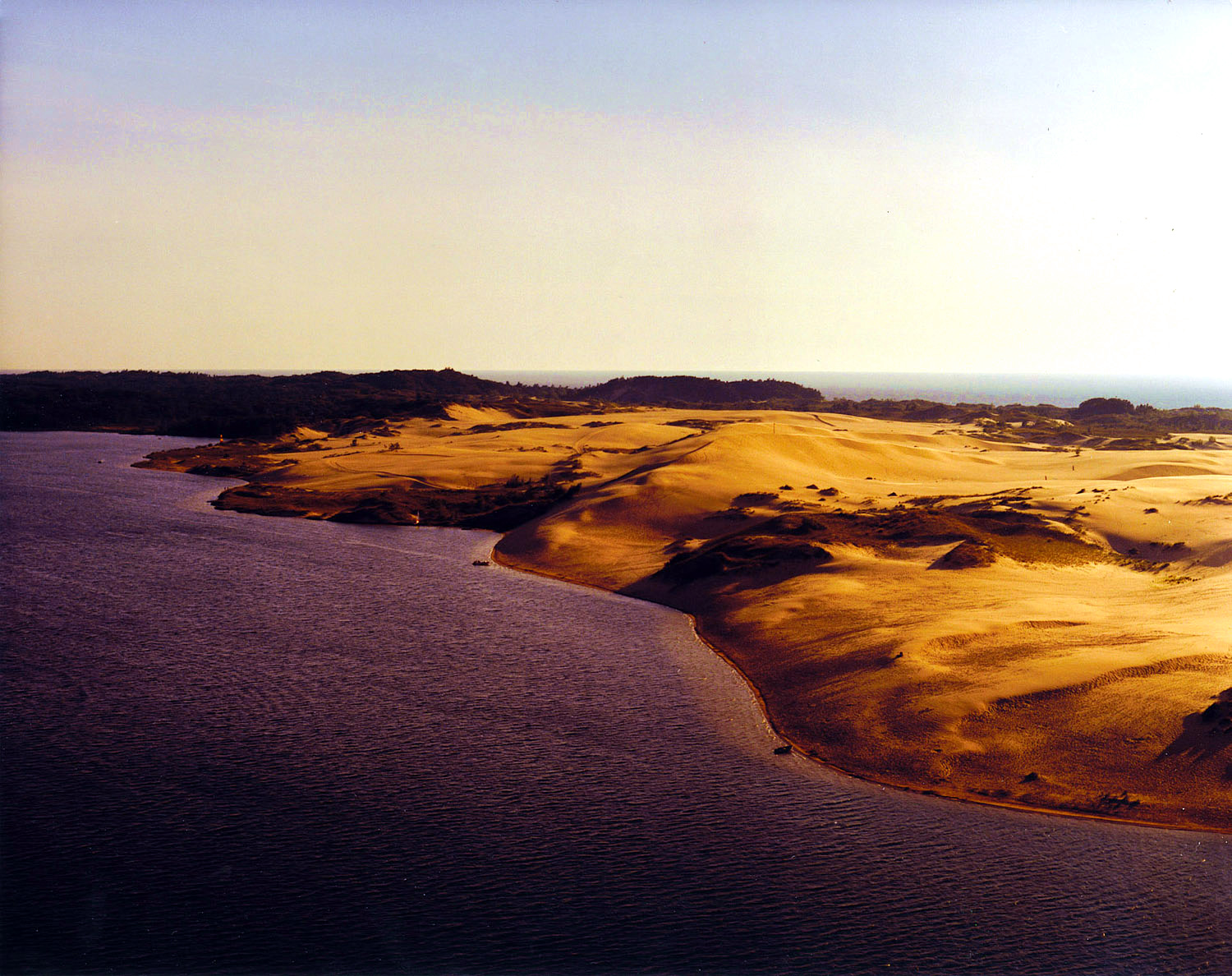 Silver Lake Dunes State Park on the Lake Michigan Shore in Oceana County, Michigan, USA. Color slightly enhanced by contributor.